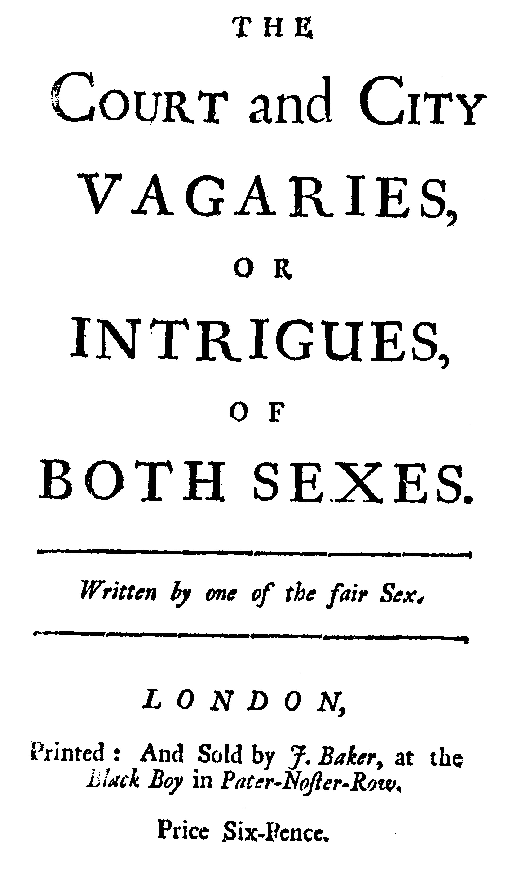 Title page of The Court and City_Vagaries (London: J. Barker, at the Black Boy in Pater-Noster-Row, 1711).